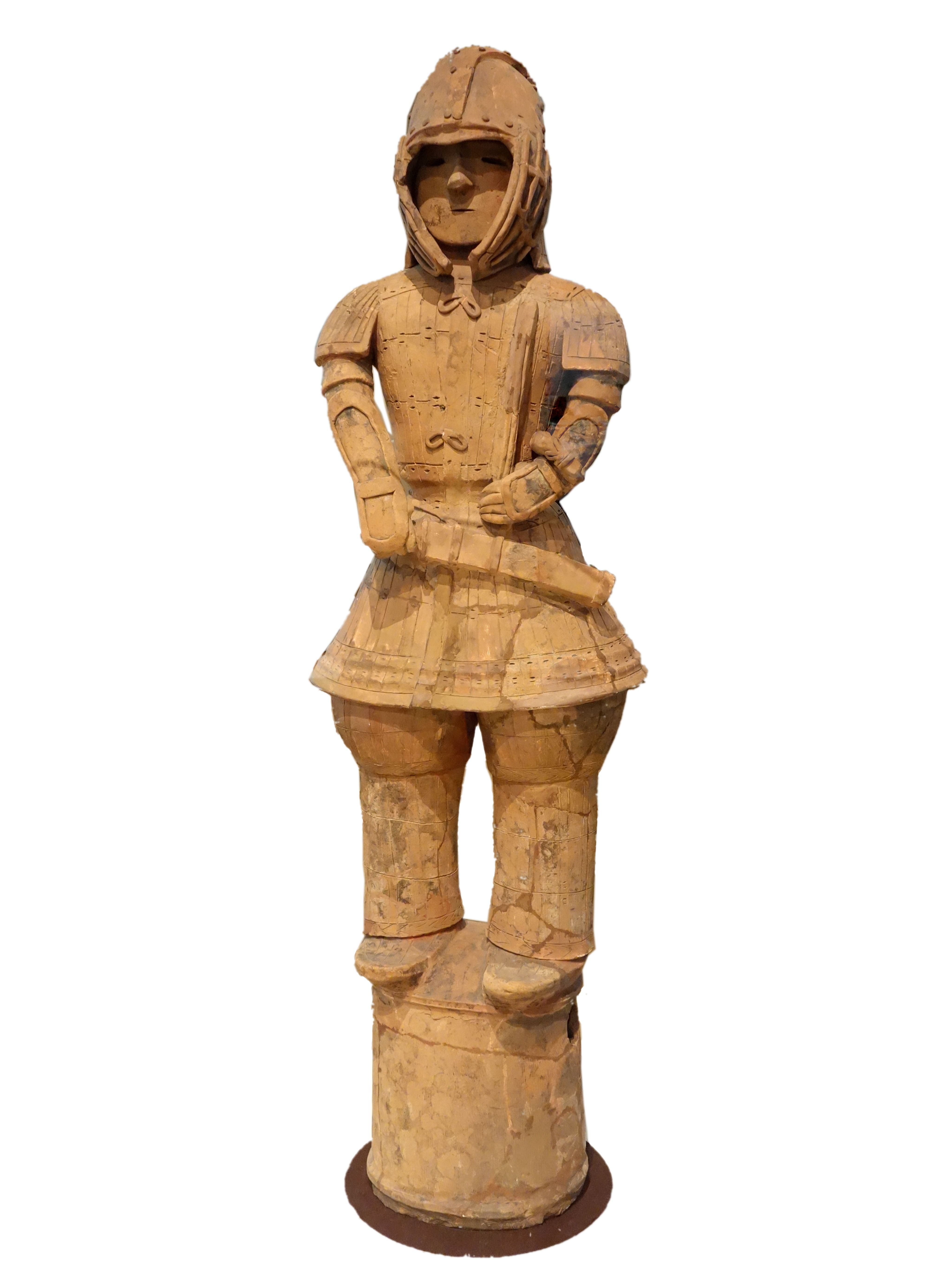 Exhibit in the Tokyo National Museum, Tokyo, Japan. This artwork is old enough so that it is in the public domain.